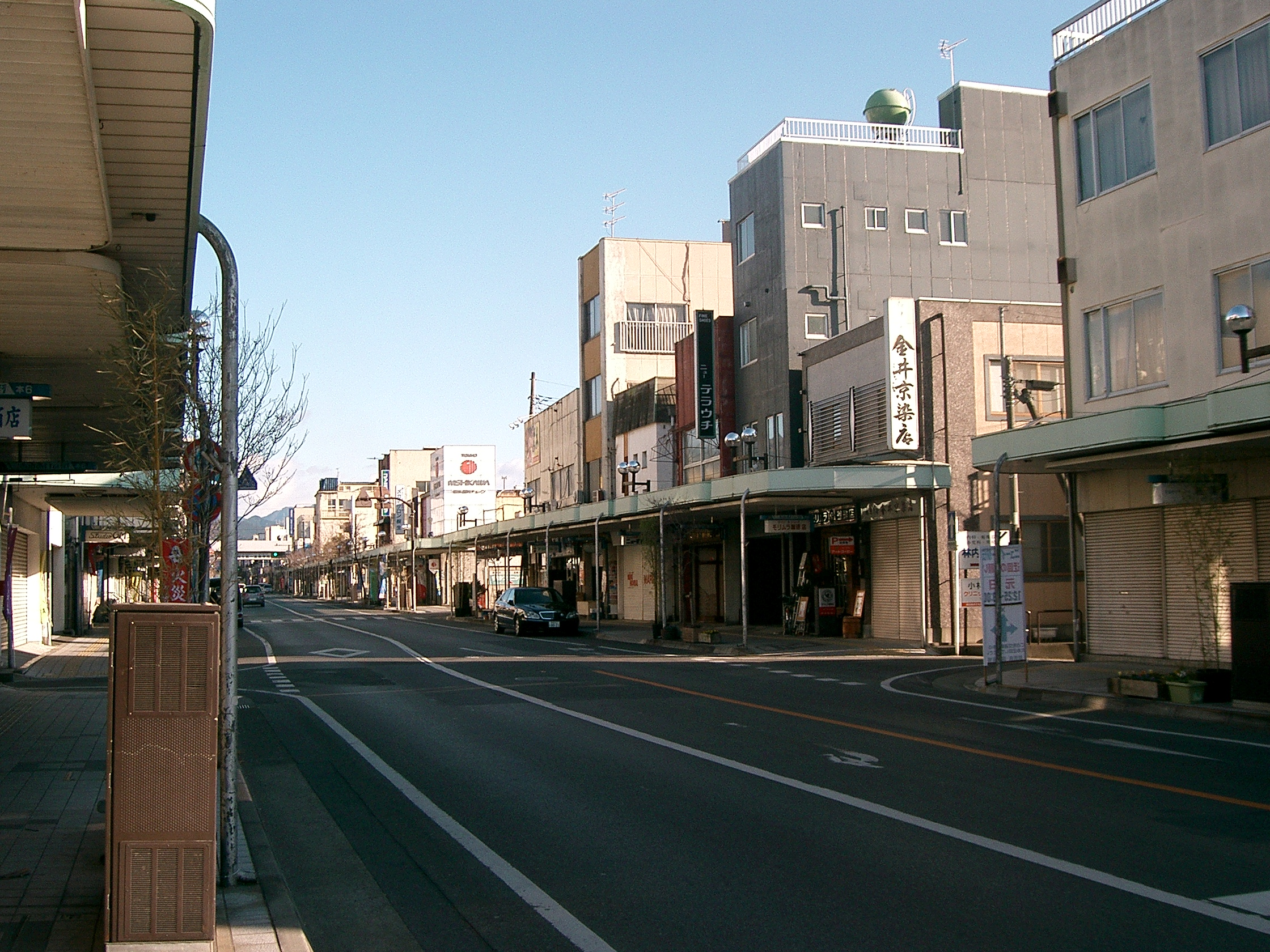 Honcho 6-chome, Kiryu city, Gunma prefecture, Japan.